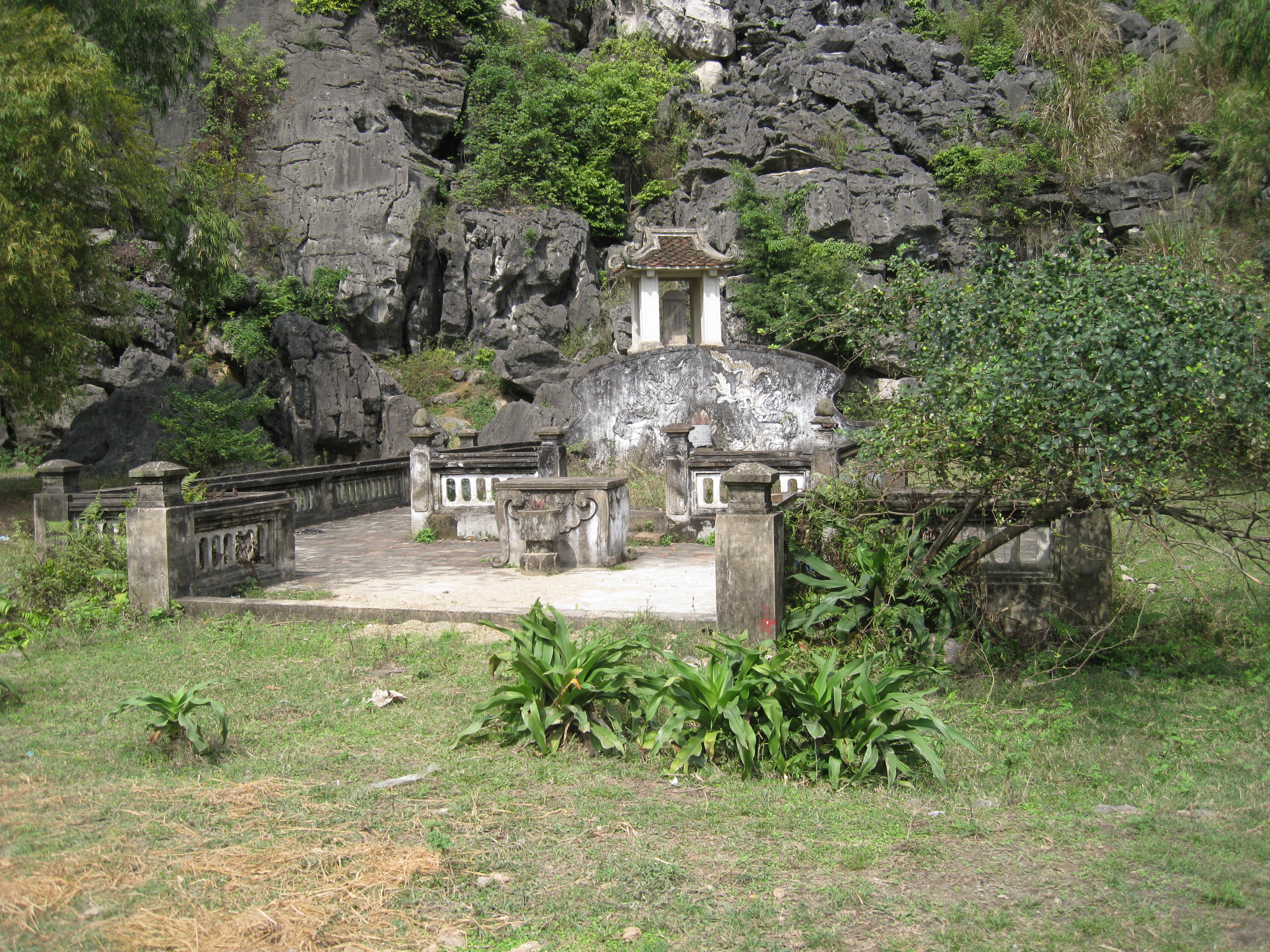 Lê Đại Hành King's tomb.